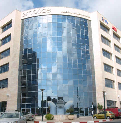 Facade of Amdocs branch in Haifa